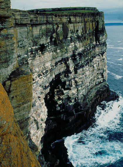 Noup Head (Westray) / Orkney (Rousay flags, middle Old Red Sandstones) original copyright 2003-2006 Team SchottlandPortal / Wolfgang Schlick (aka Islandhopper) cut offs published before shot taken in 2003 from the authors archive Islandhopper 14:38, 30 July 2006 (UTC)